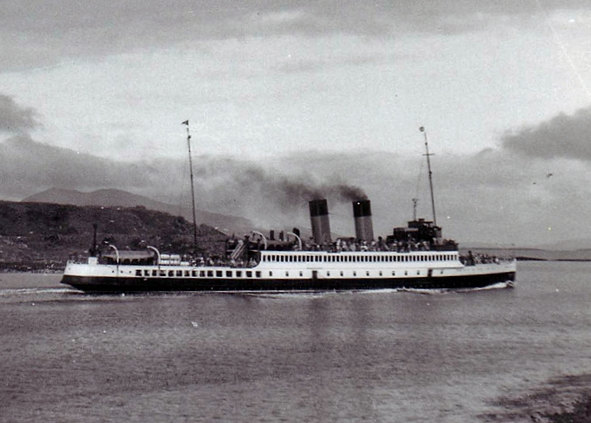 TS King George V leaving Oban, in the Sound of Kerrera